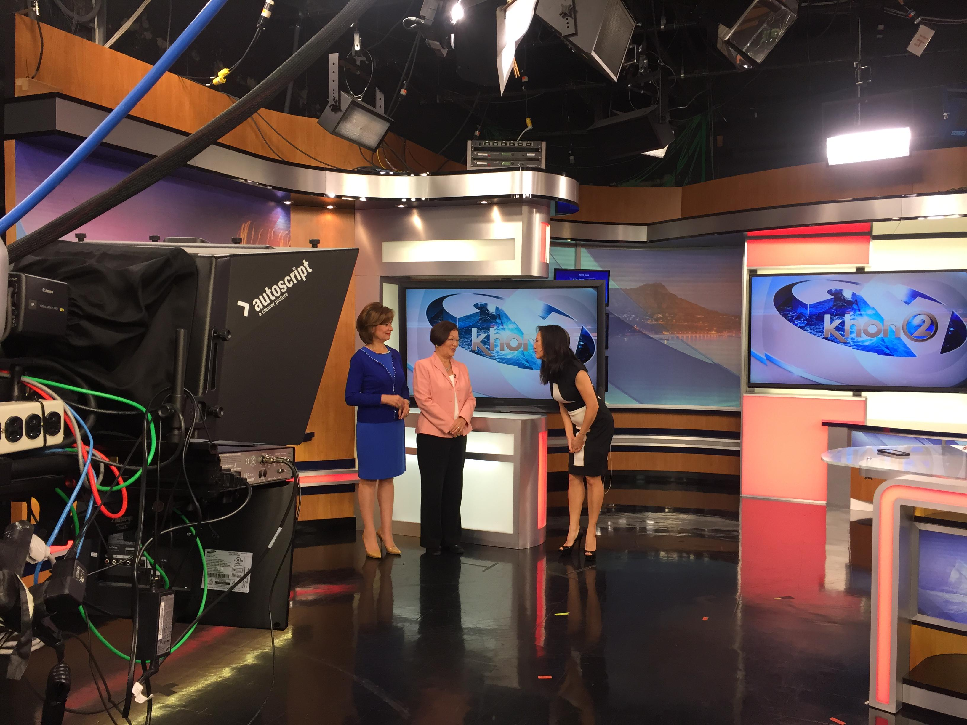 Happy to kick off @MCS4Biz's visit to Hawaii @KHONnews. Looking forward to hearing from small business owners